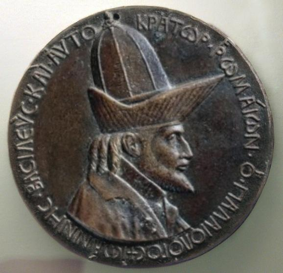 Antonio pisanello. Medal of 'Emperor John VIII Palaeologus', front side of the medal (left), 1438-39, bronze, dia. 4.1" (10.3 cm), British Museum, London